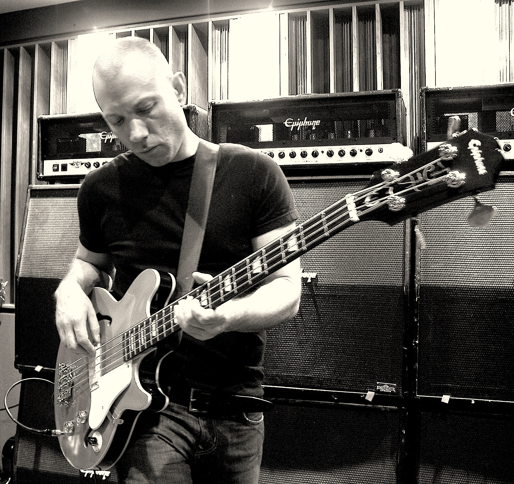 Producer Blake Morgan in studio, w/ Gibson Epiphone